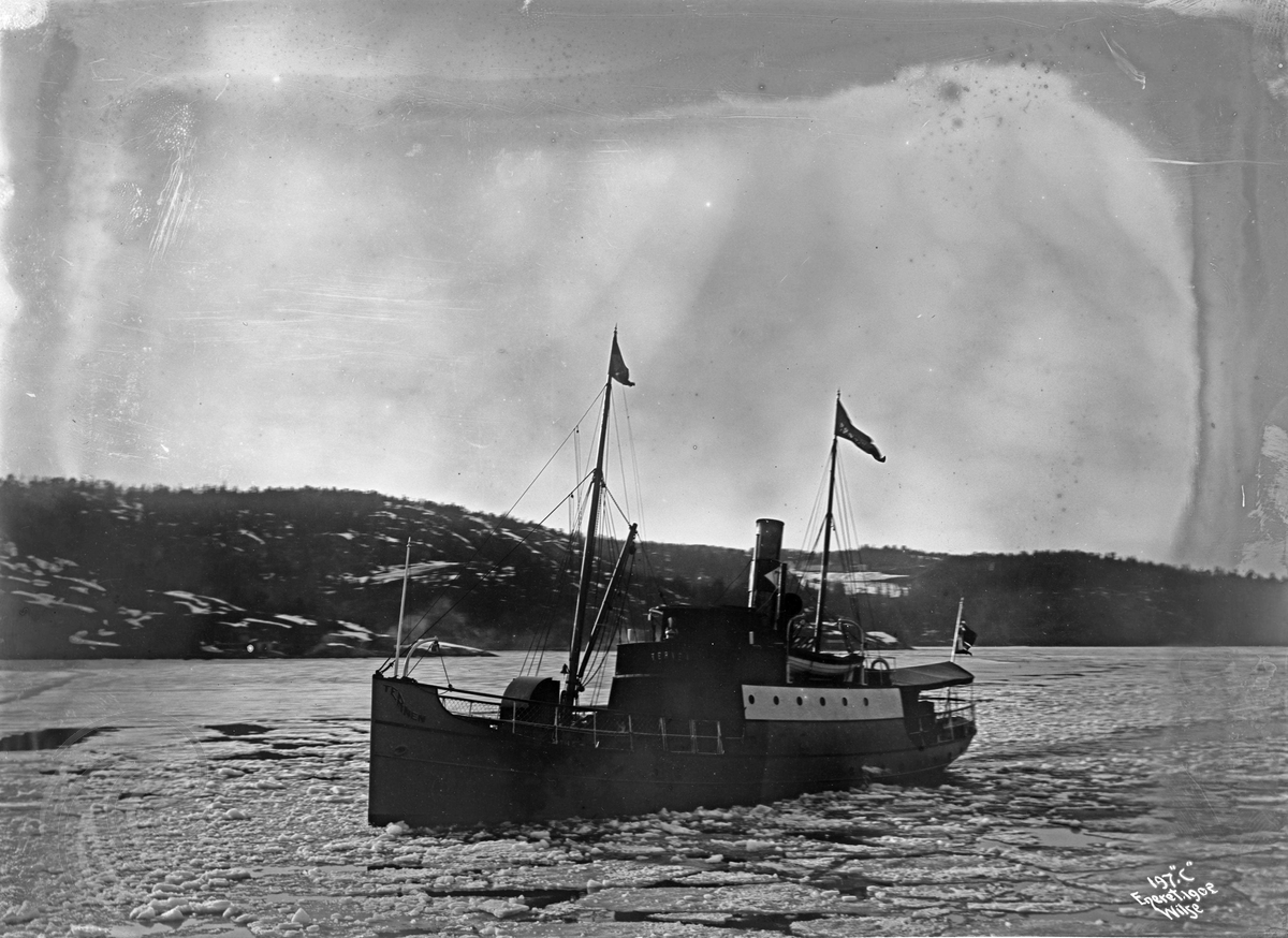 DS Ternen in an ice covered Bundefjorden near Oslo.